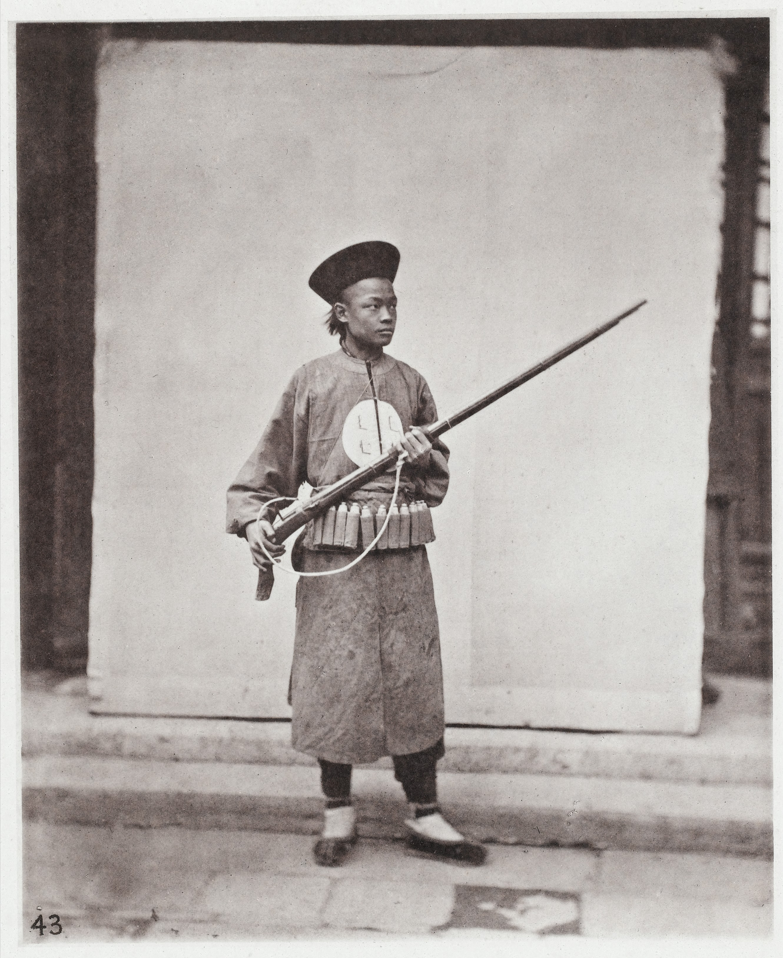 A Manchu Soldier from the North of China, with a matchlock gun and a belt of quick load cartridges. General Collections Keywords: John Thomson; Military History; Gun; Uniform; Weapons; China; Manchu (Qing) Dynasty